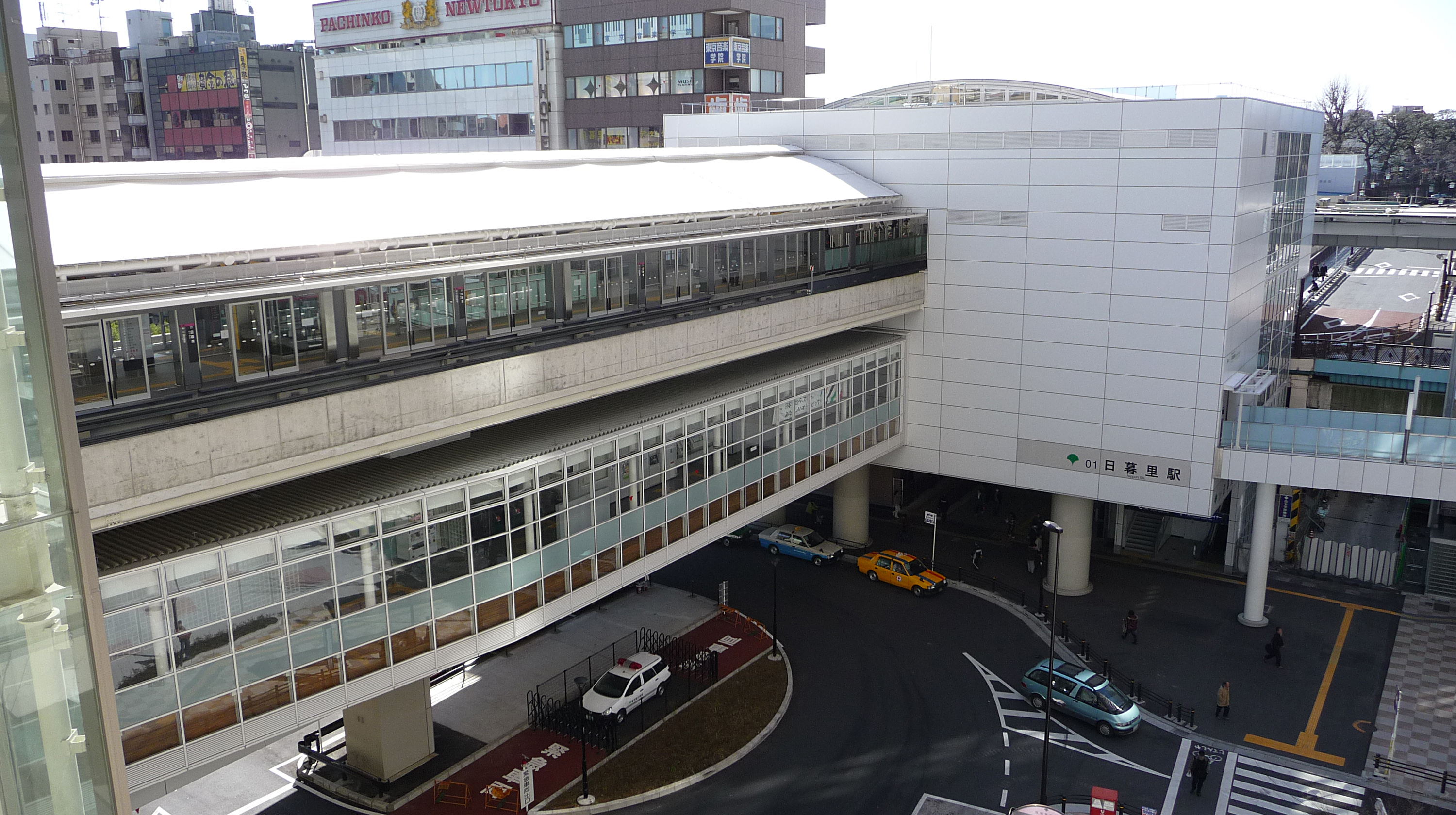 Nippori Station of Nippori-Toneri Liner.